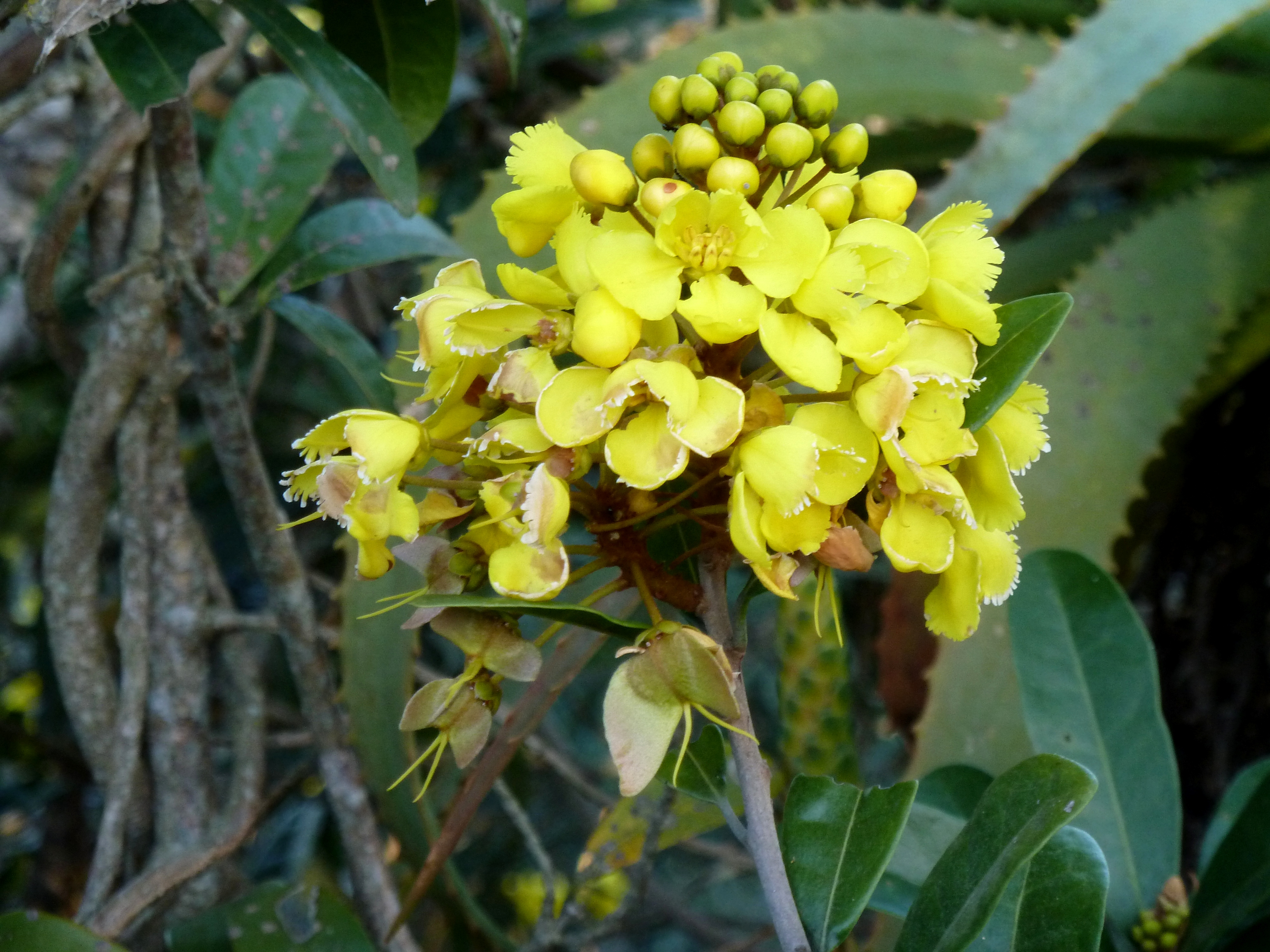 Inflorescence of a Moth fruit in the Krantzkloof Nature Reserve. At the bottom the flowers have turned to fruit, while at the top the flower buds have not opened yet.